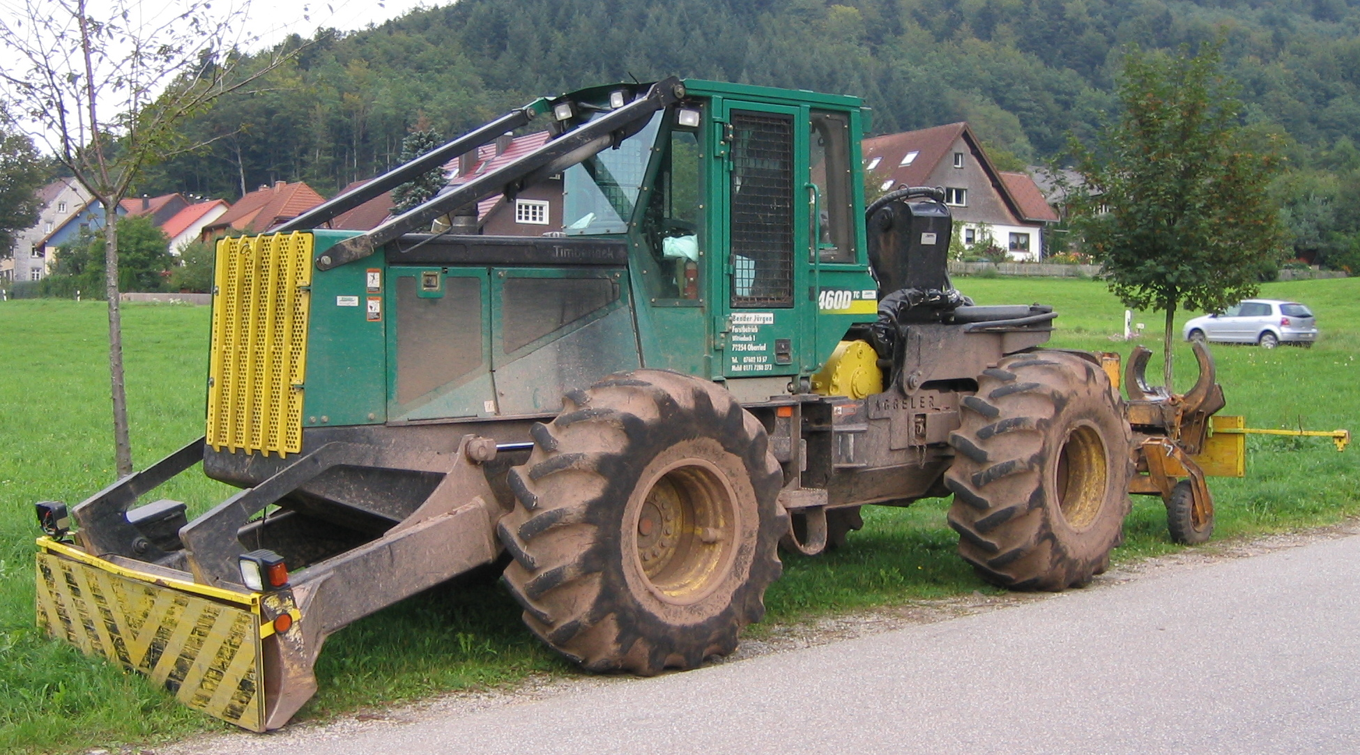 Timberjack 460DTC skidder